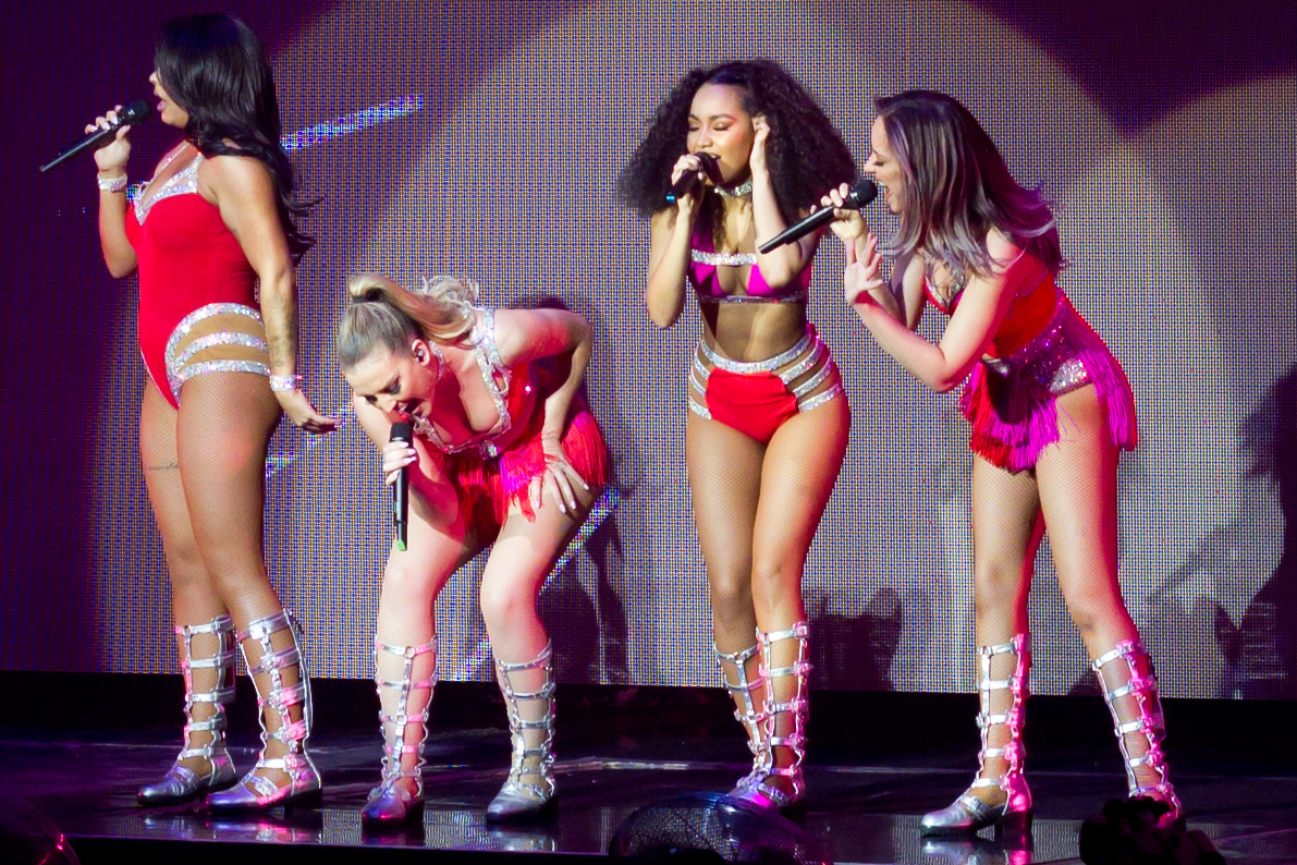 Little Mix